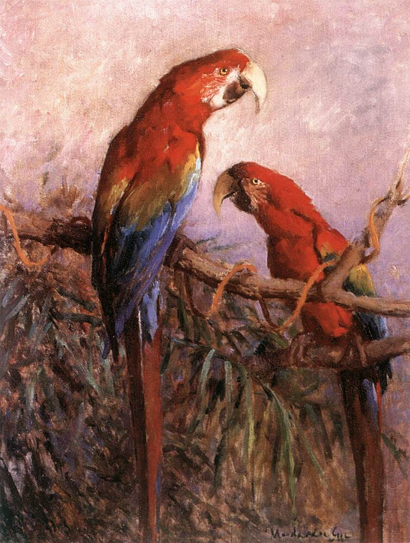 Parrots